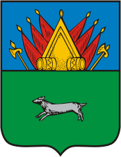 Tara (Omsk oblast), coat of arms (1785)